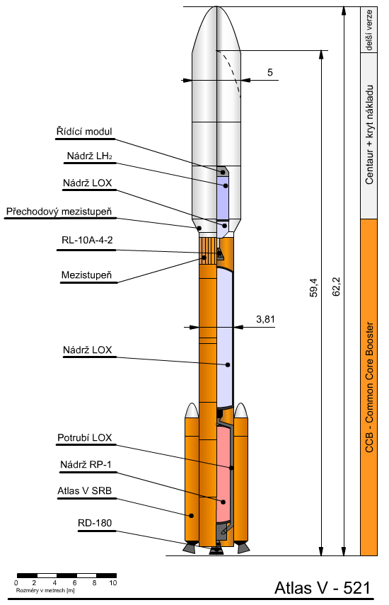 Atlas V outline